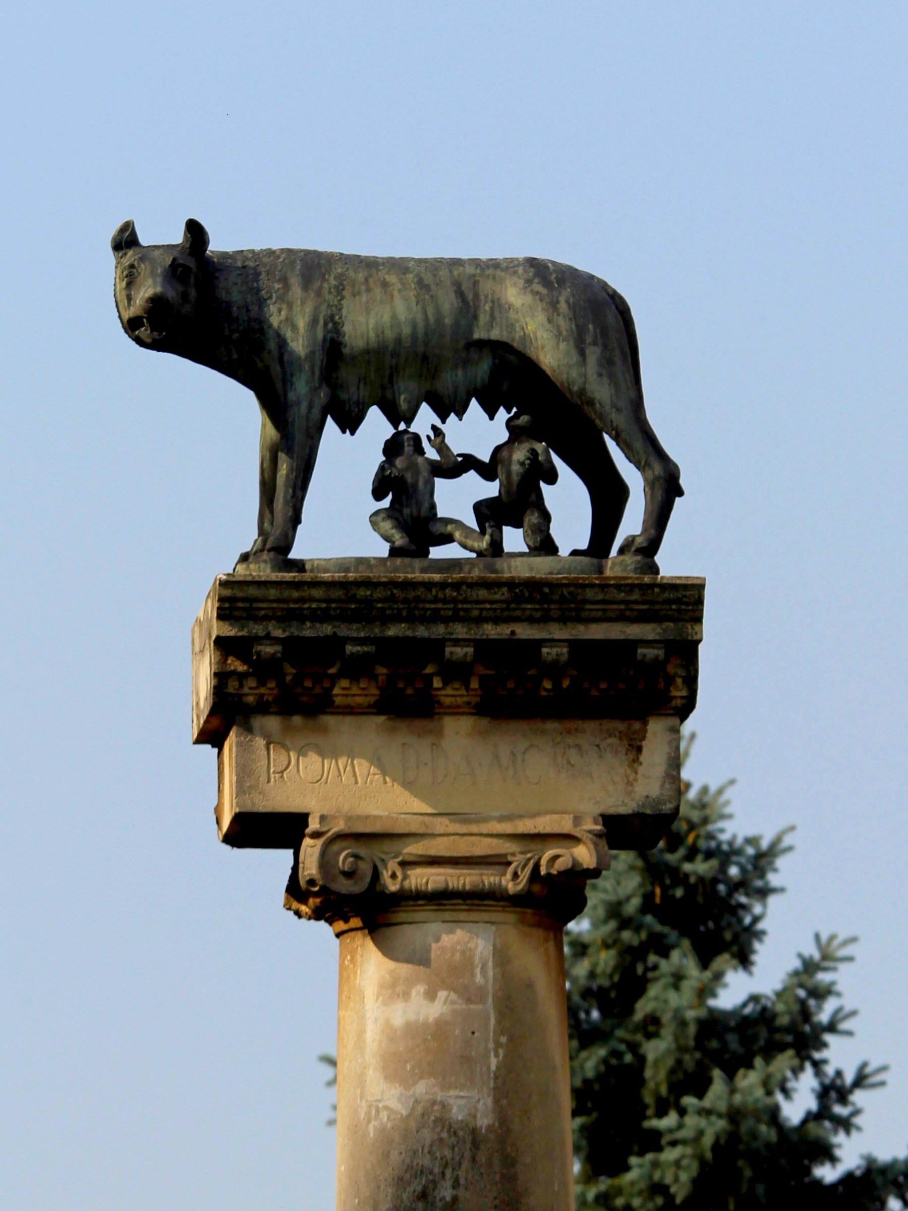 Capitoline Wolf, Timisoara, Romania